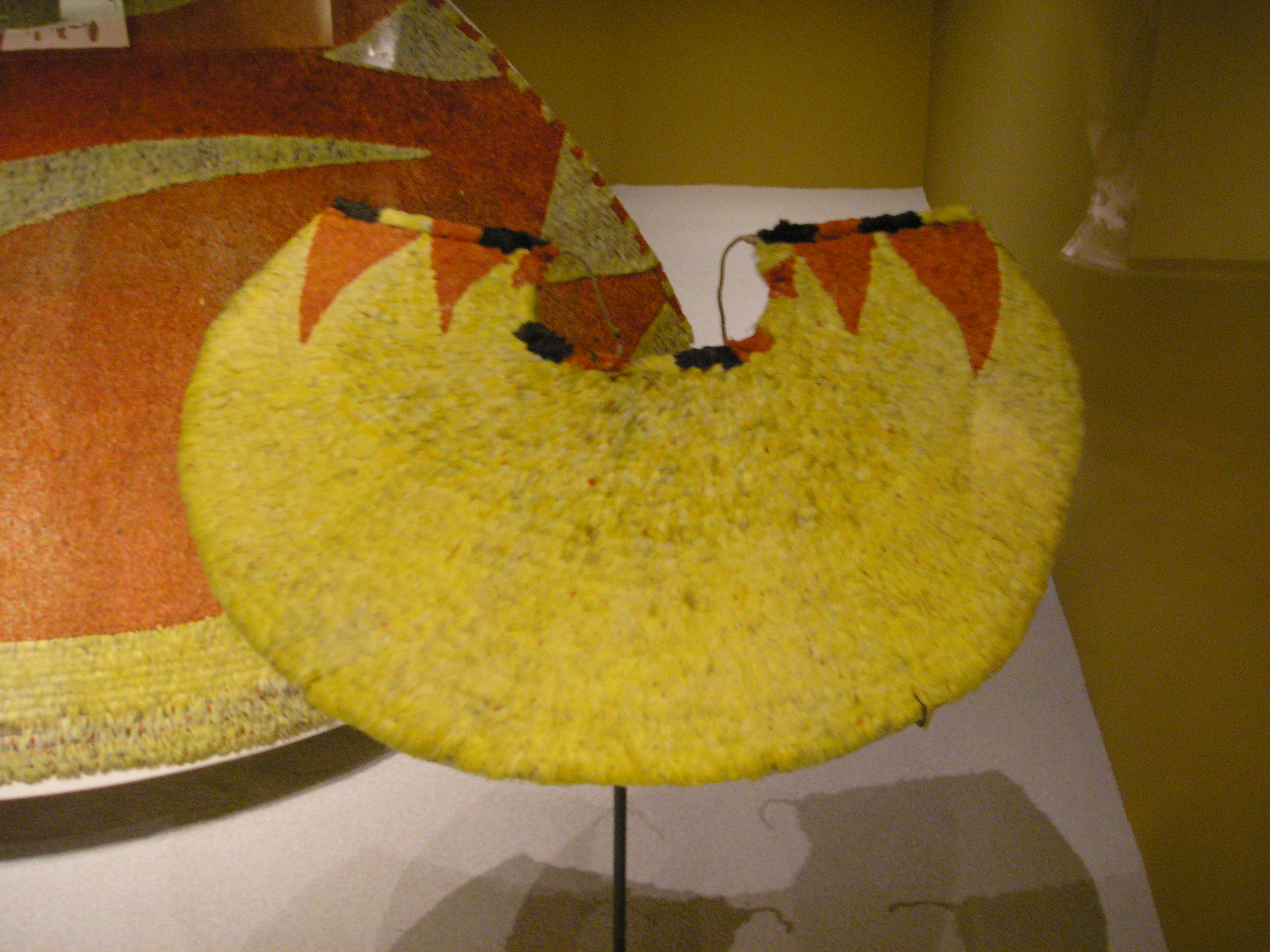 A feather-coat, an insignia that had very high status in the old culture of Hawaii. At the Ethnologisches Museum, Berlin-Dahlem.